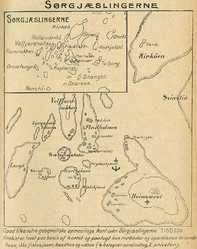 Map of island group Sør-Gjæslingan in Vikna, Norway. Drawing by district physician Harald Natvig.